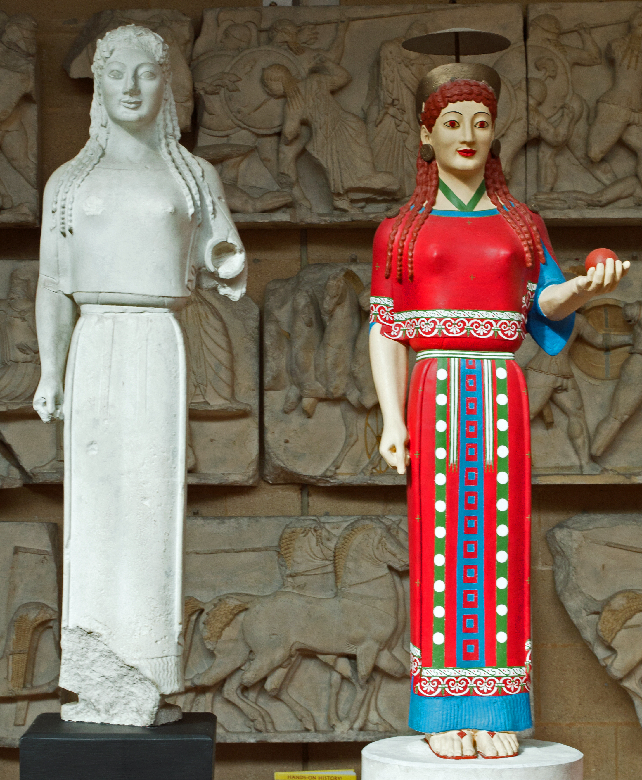 The Peplos Kore (ca 530 BC, now stands in the Akropolis Museum in Athens). Plaster cast and reconstruction. Cambridge Museum of Classical Archaeology.